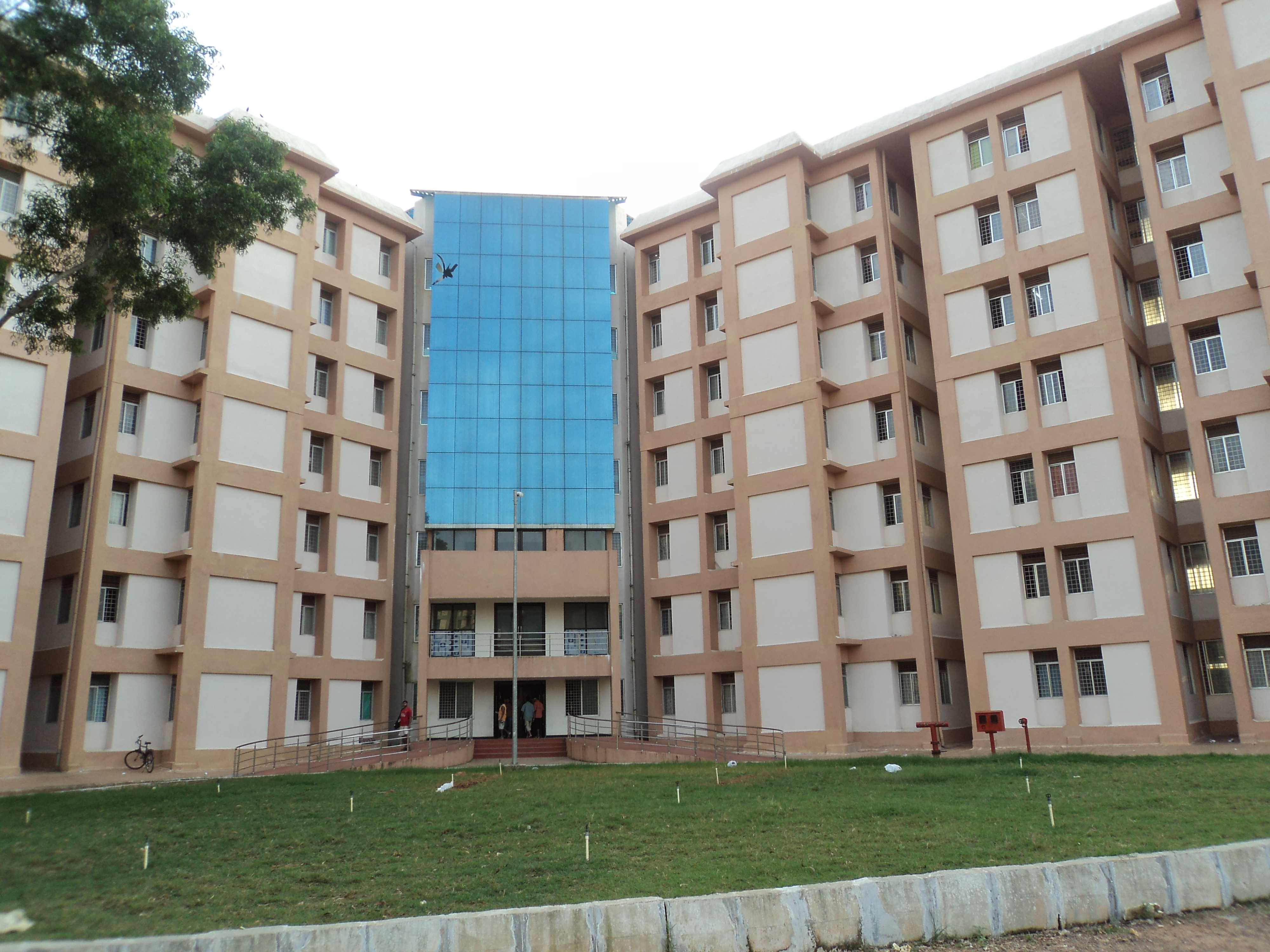 Mega hostel block in NITK